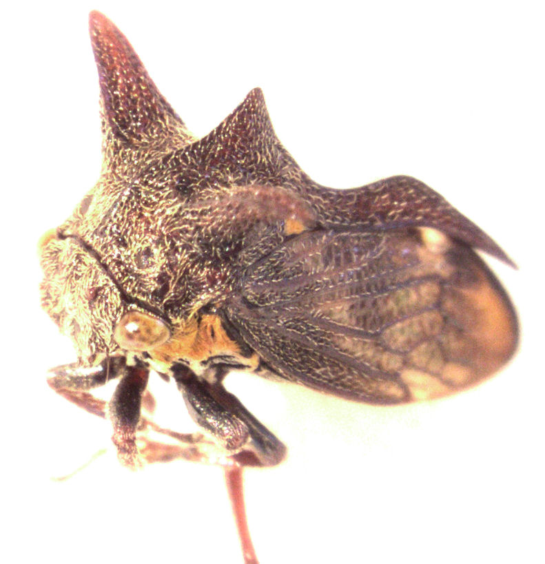 adult Acanthuchus trispinifer